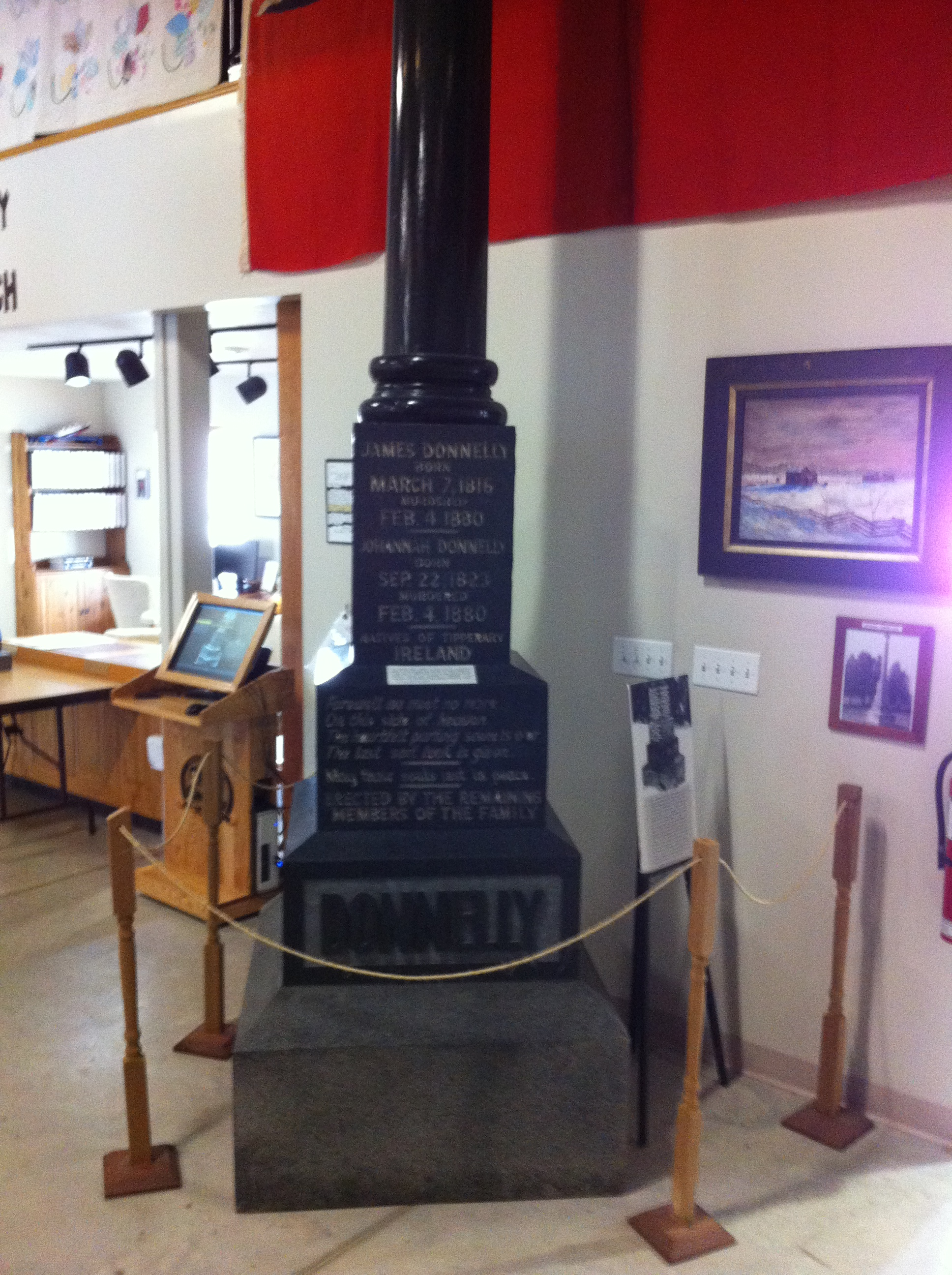 This is a replica of the original Donnelly tombstone used by Ray Fazakas and is currently on display at the Lucan heritage/Donnelly museum in Lucan, Ontario.